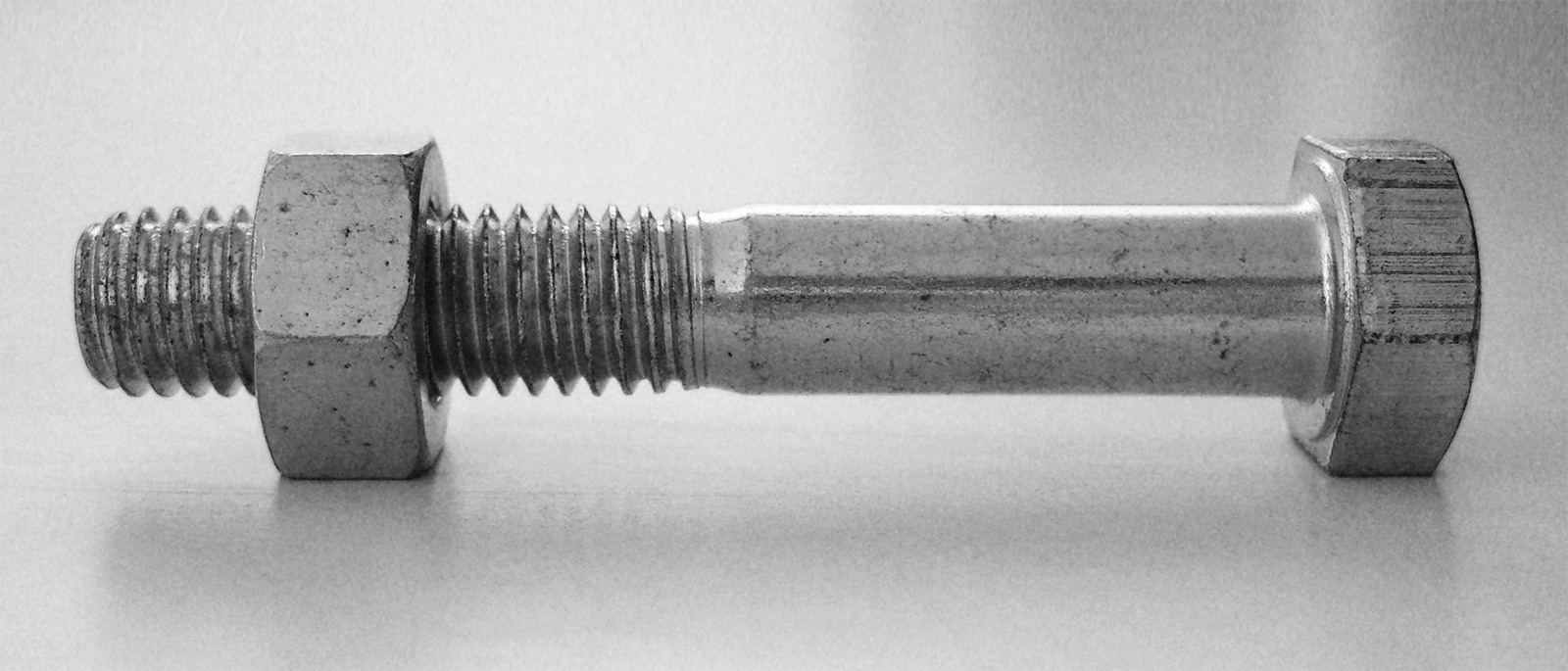 A fastening bolt with nut.